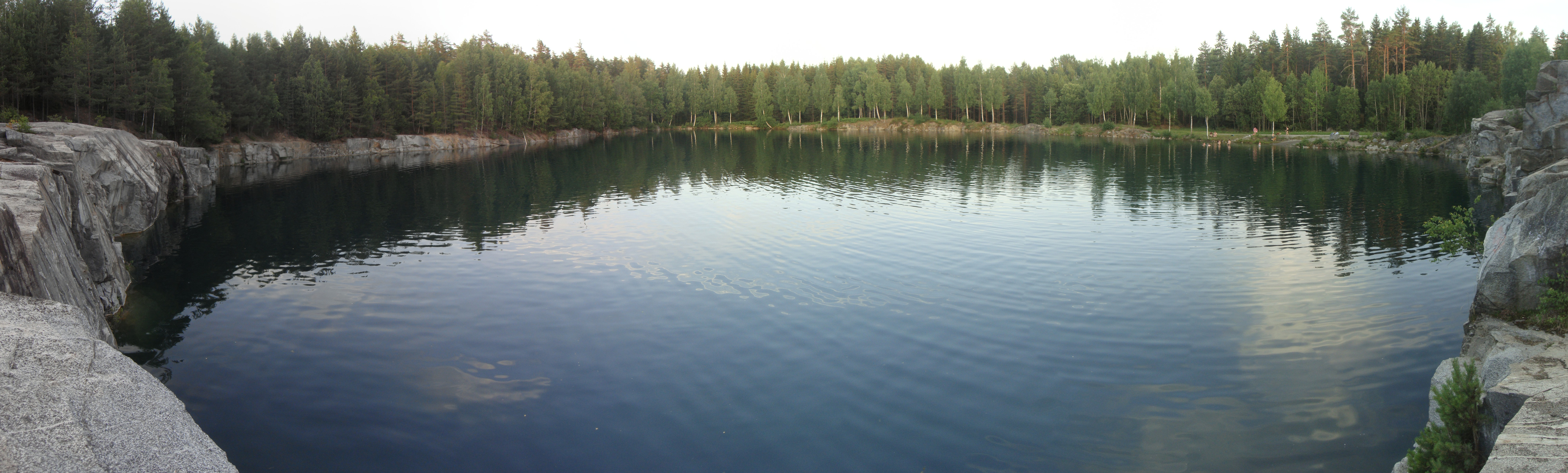 Panorama of Tortunagropen, a lake formed in an abandoned limestone quarry outside Tortuna, north of Västerås, Sweden.